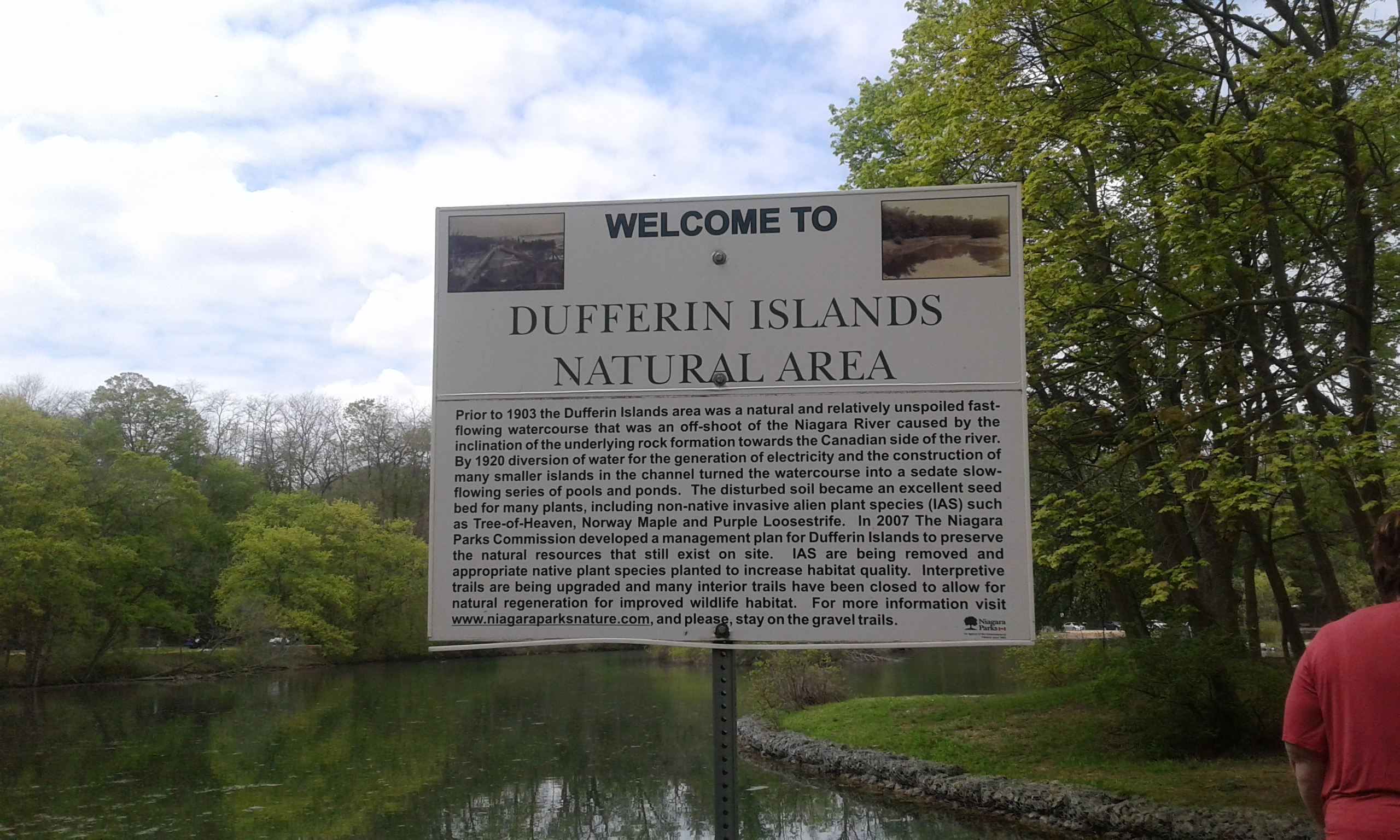 dufferin islands